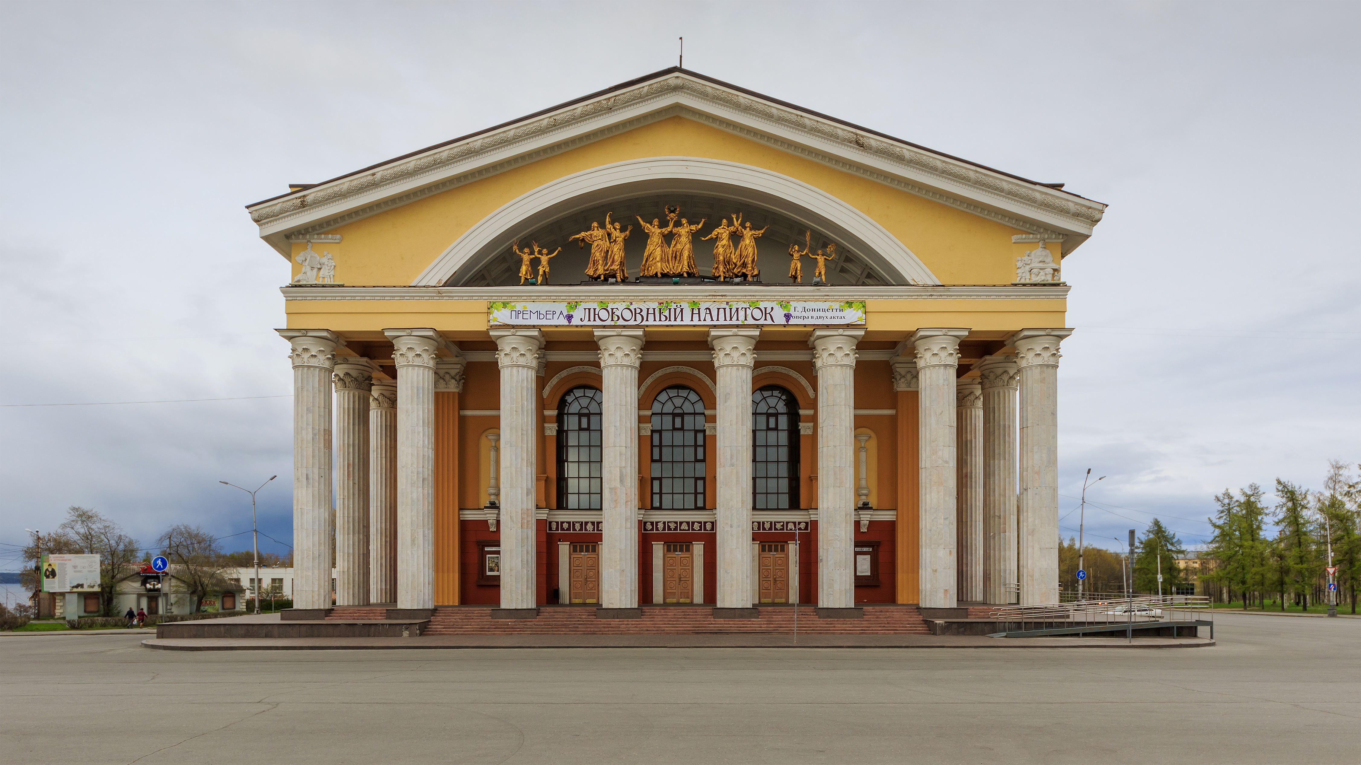 Building of Music Theater in Petrozavodsk, Republic of Karelia (Russia).